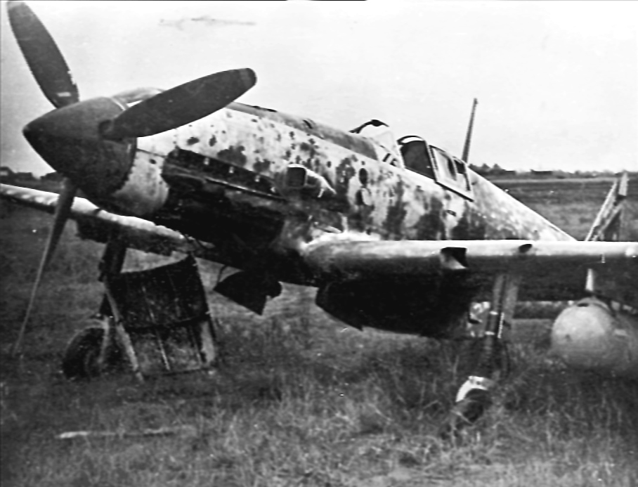 A captured Japanese Kawasaki Ki-61 Hien fighter (Allied code name "Tony") at Clark Field, Luzon (Philippines), in 1945.